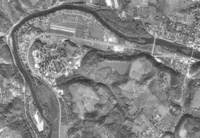 Aerial photograph of Federal Prison Camp, Alderson in West Virginia